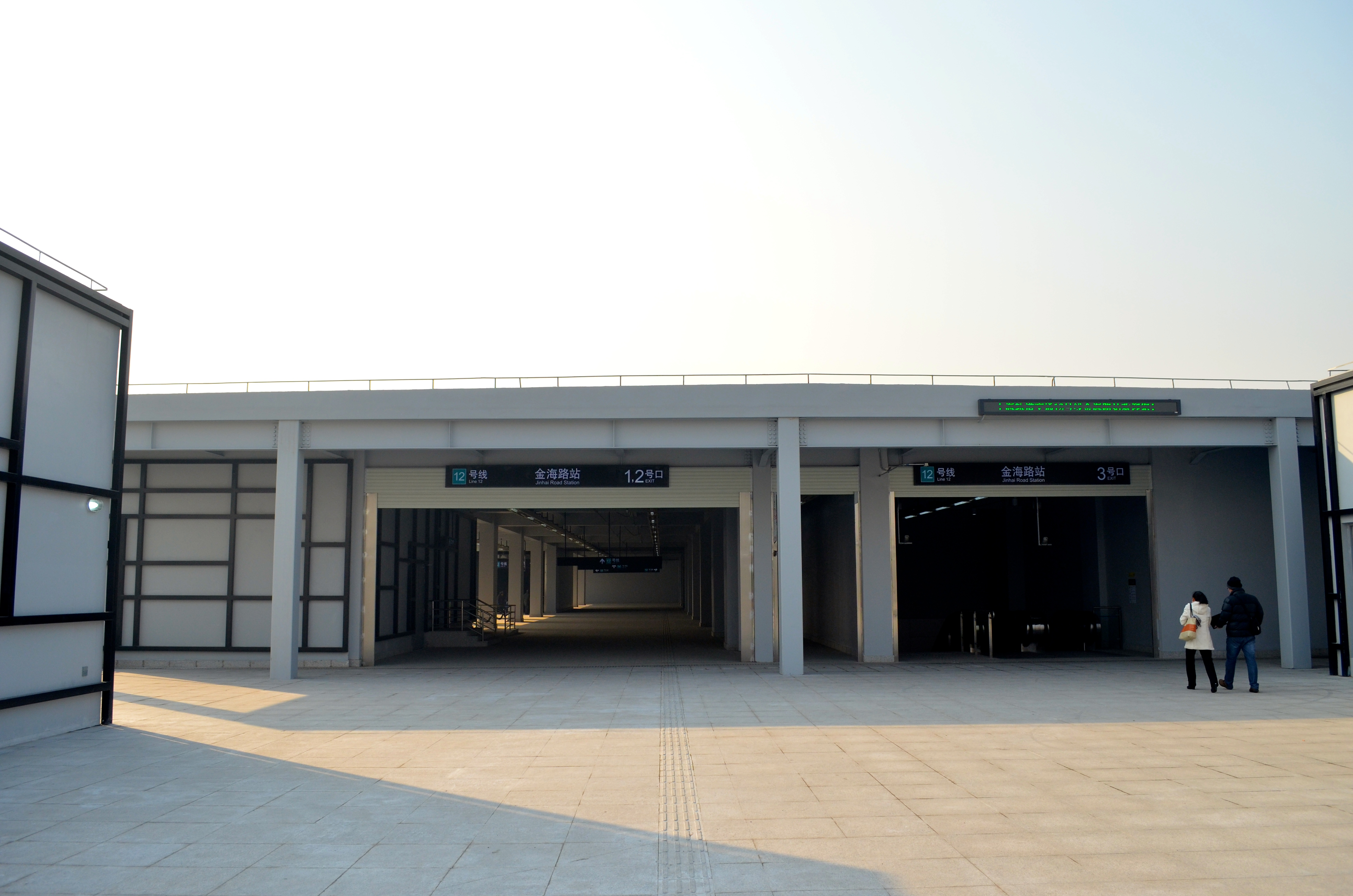 Jinhai Road Metro Station